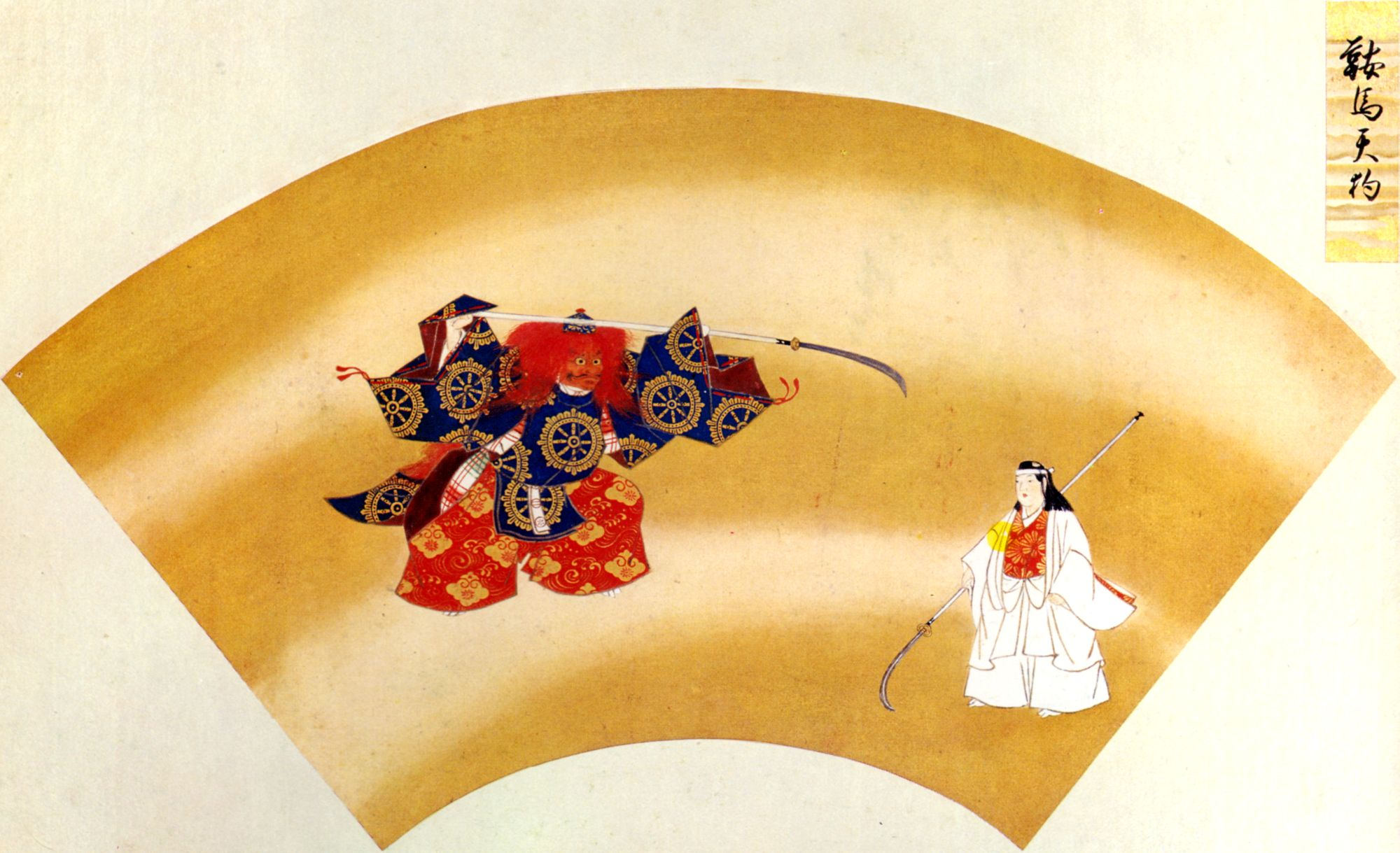 Noh - Kuramatengu